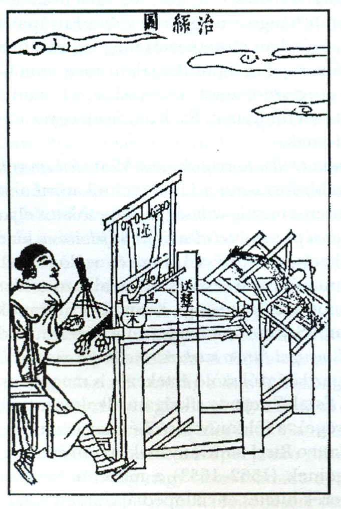 Illustration from the Chinese book Tiangong kaiwu